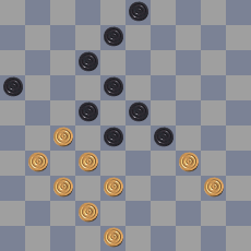 Valluikslag / coup de la trappe position in international draughts.